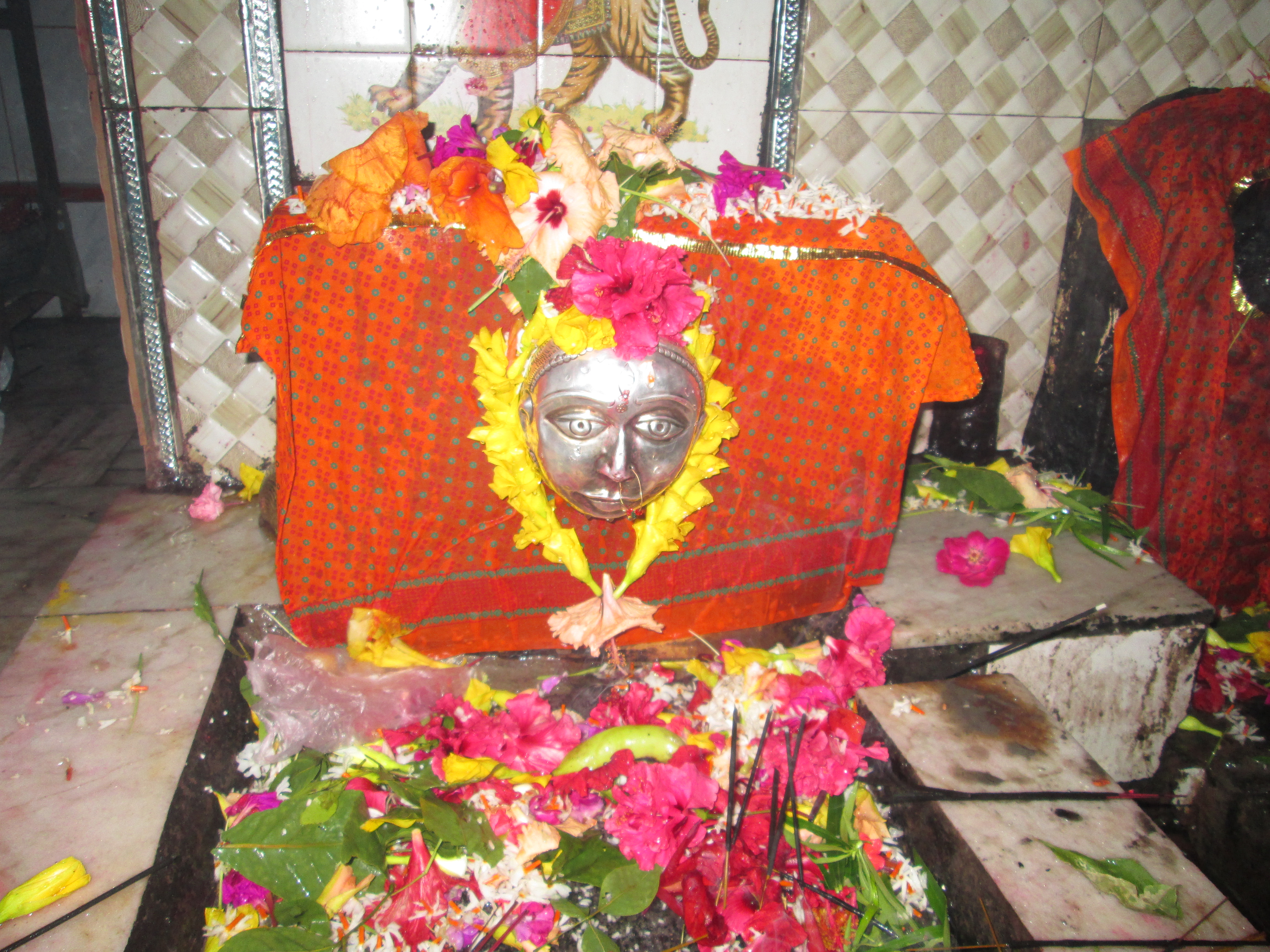 this is maa chandika idol in Maa chandika temple in biratpur saharsa bihar